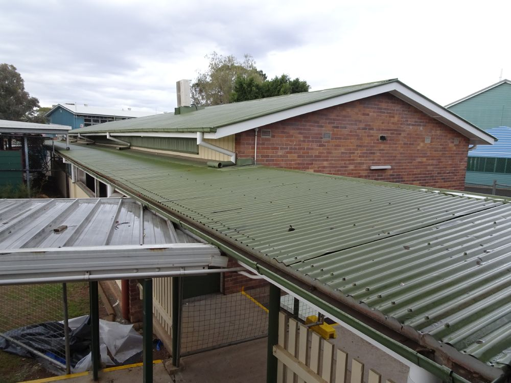 Block J, southwest end, looking northeast from Block C